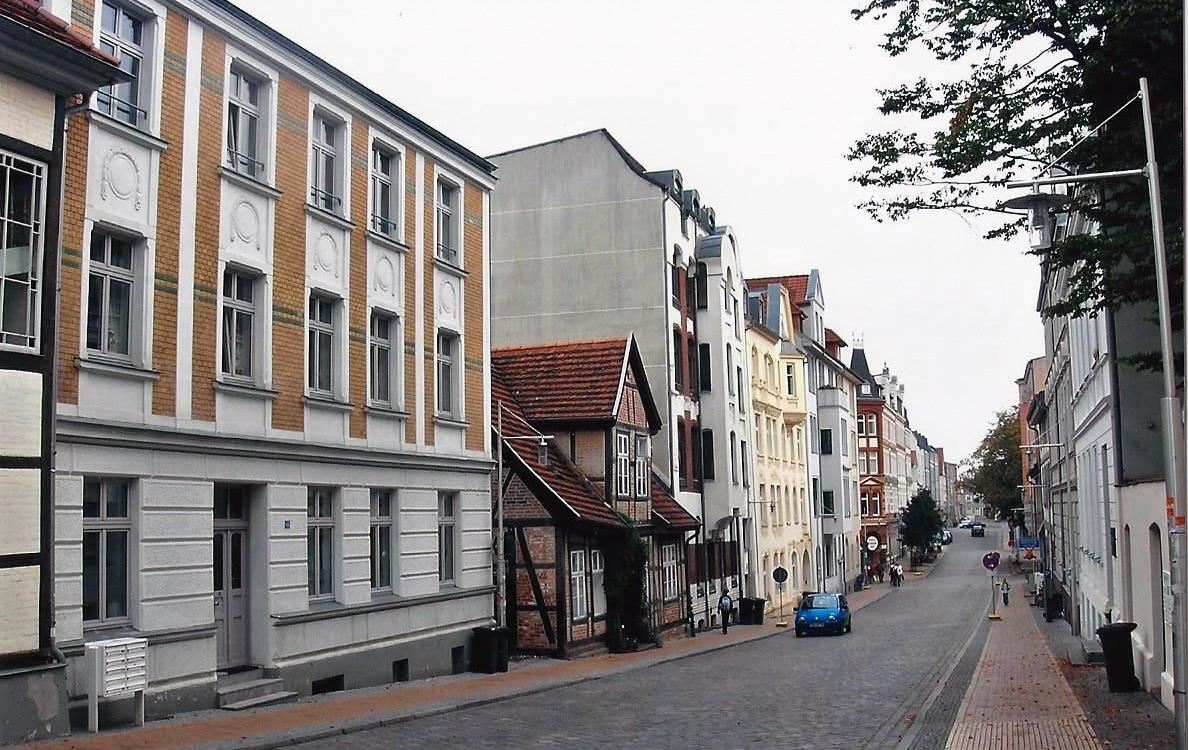 Kirchenstraße in Schwerin in 2006, view from Lindenstraße (beneath St. Nikolai (Schelfkirche). Little timber framed house on the left is a cultural heritage monument.